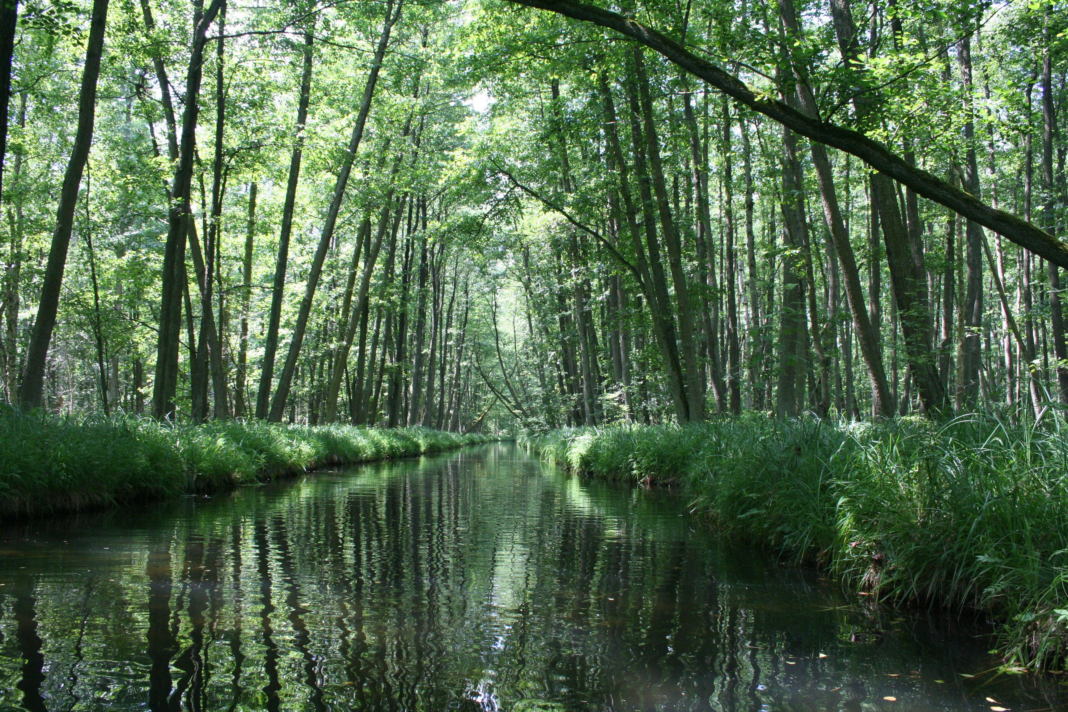 Schwaanhavel, Mecklenburg Lake District near Wesenberg